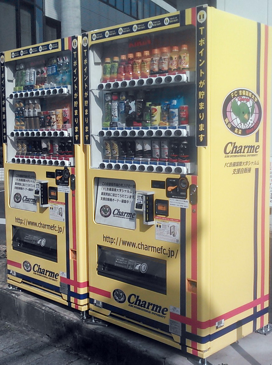 Vending Machine of Donation for F.C. Kibi International University Charme. Saved T-point.